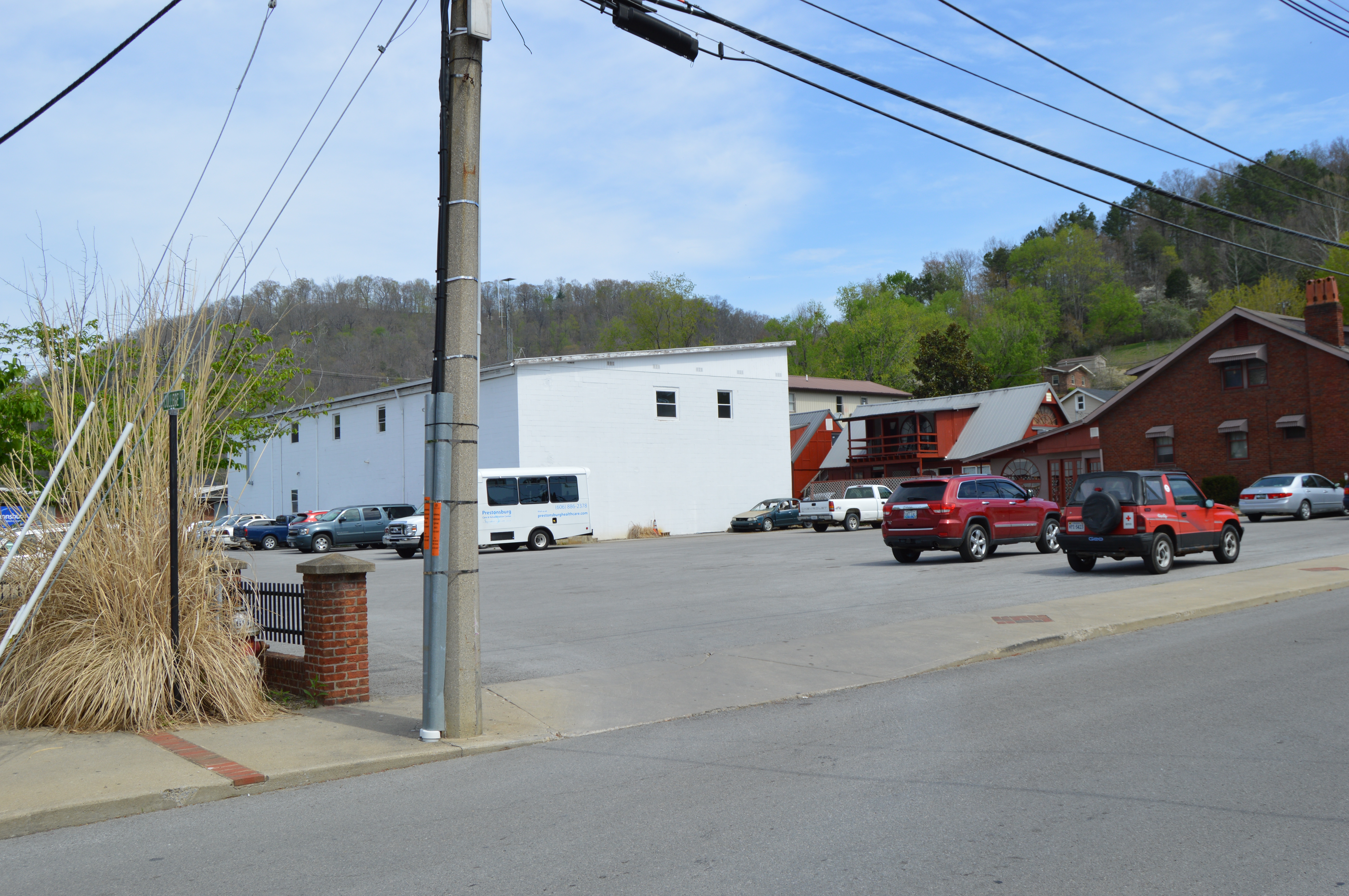 A parking lot on the northern side of Court Street just east of the Central Avenue intersection in Prestonsburg, Kentucky, United States. This was once the site of the Fitzpatrick-Harmon House, which was built in 1890; although listed on the National Register of Historic Places in 1989, it has been destroyed.